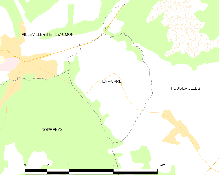 Map of French municipality